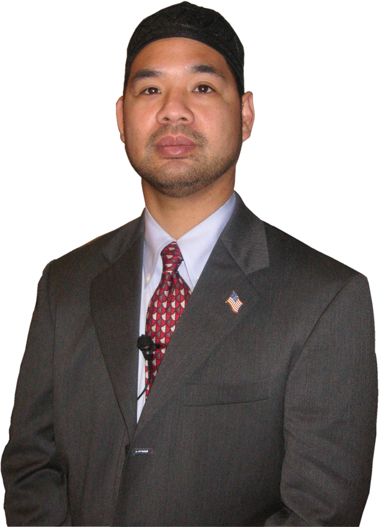 James Yee at the Lancaster University